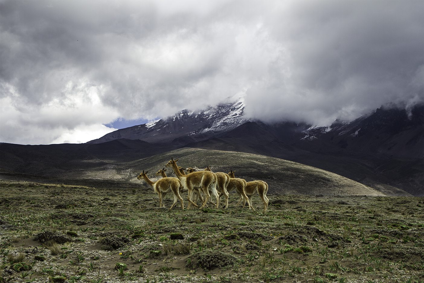 Vicugna vicugna in the Chimborazo Wildlife Reserve, Ecuador